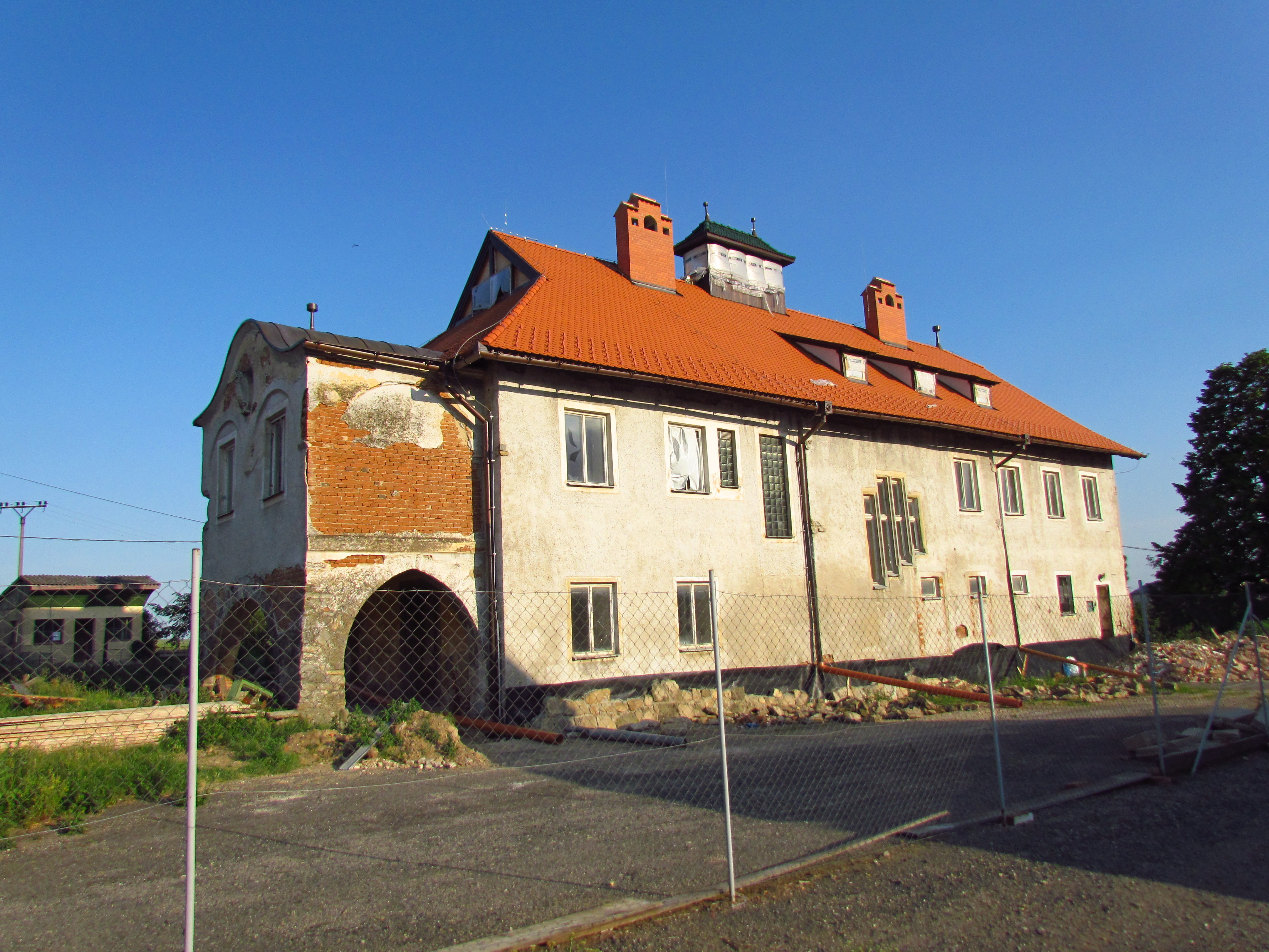 Villa Chateau in Újezd, Znojmo District.